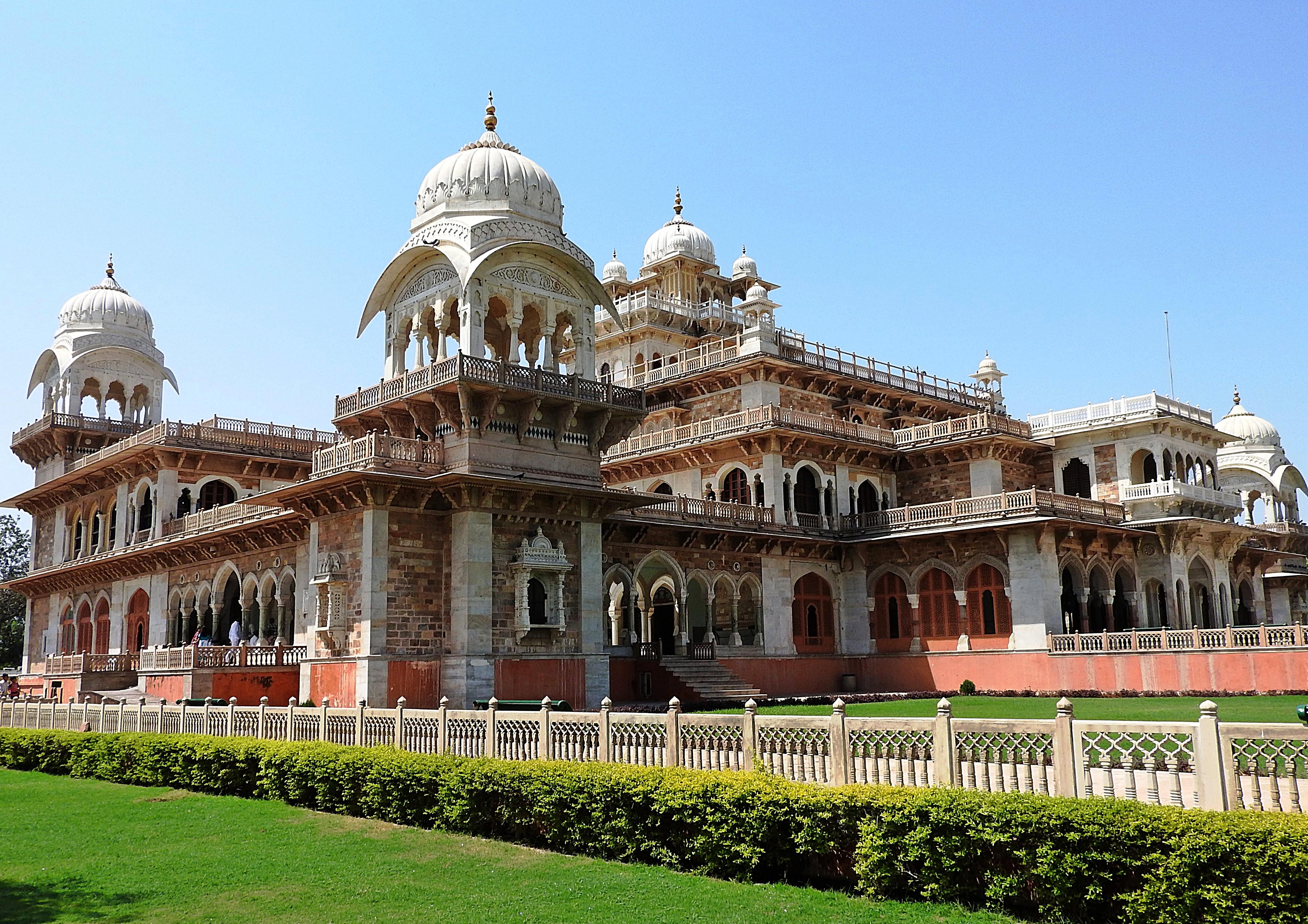 Albert Hall, Ram Niwas Bagh